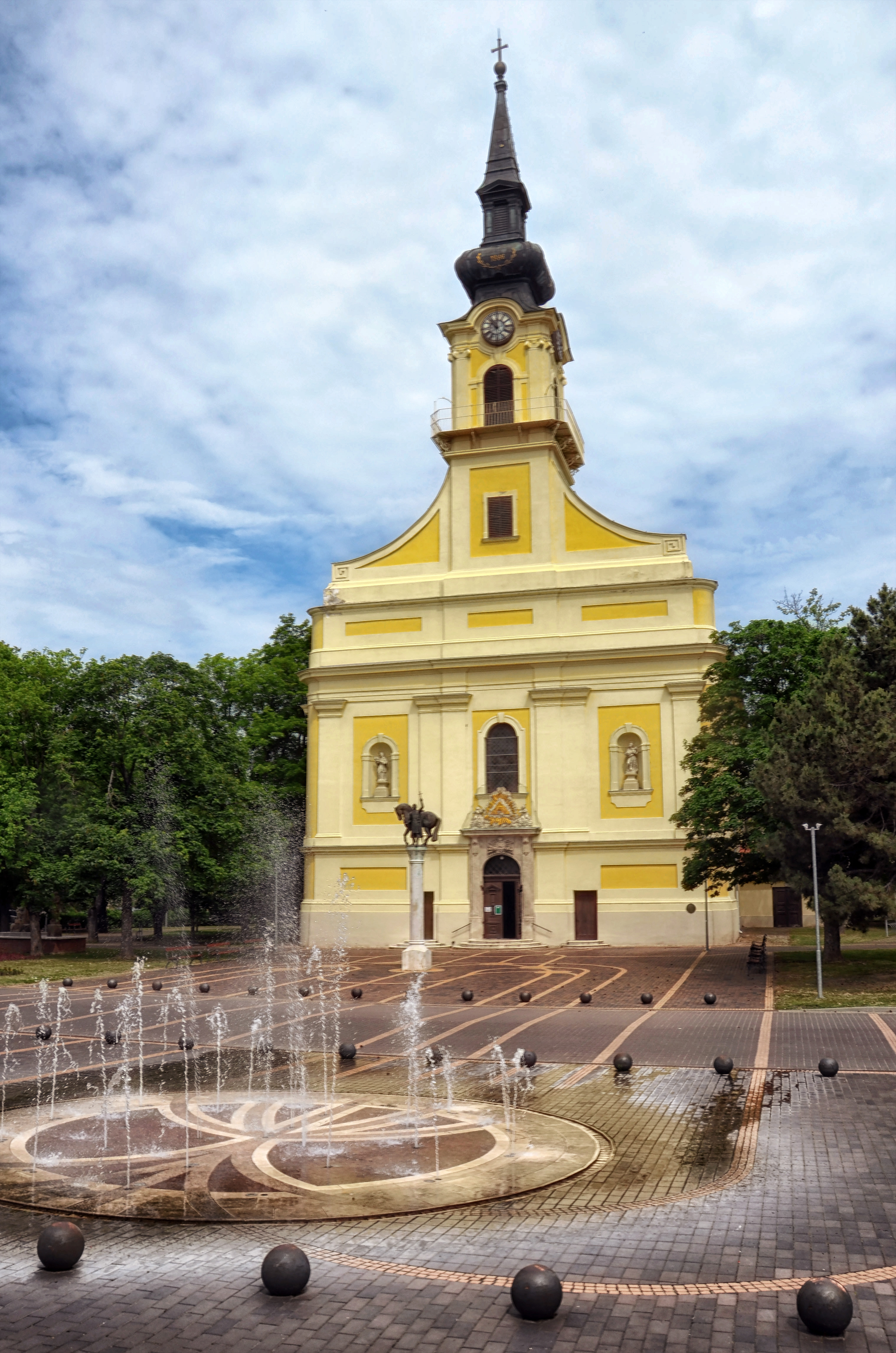 Our Lady Church in Csongrád, Hungary